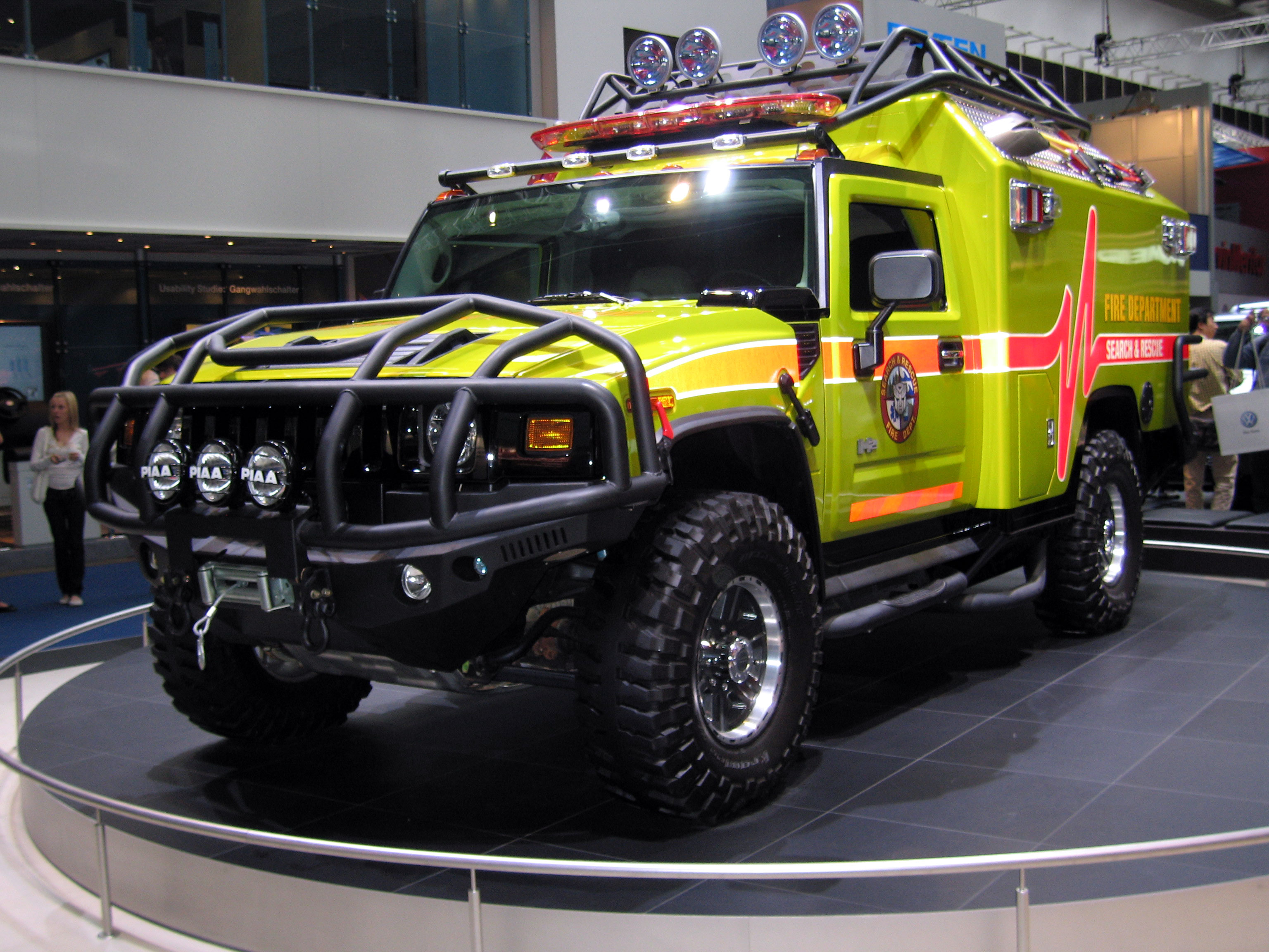 Hummer H2 from the movie Transformers at the IAA 2007